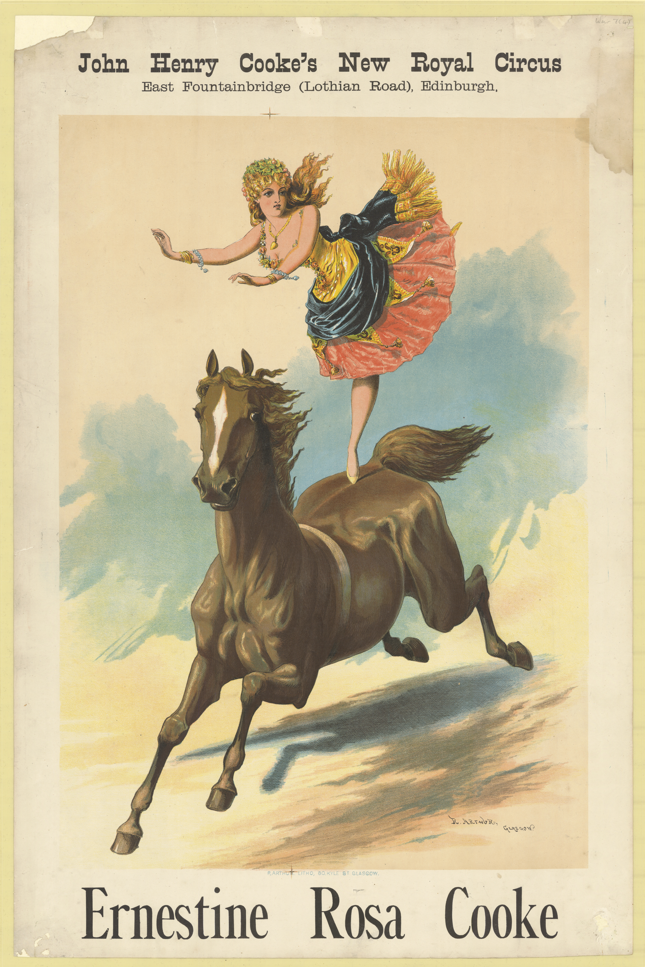 John Henry Cooke's New Royal Circus East Fountainbridge (Lothian Road) Edinburgh.